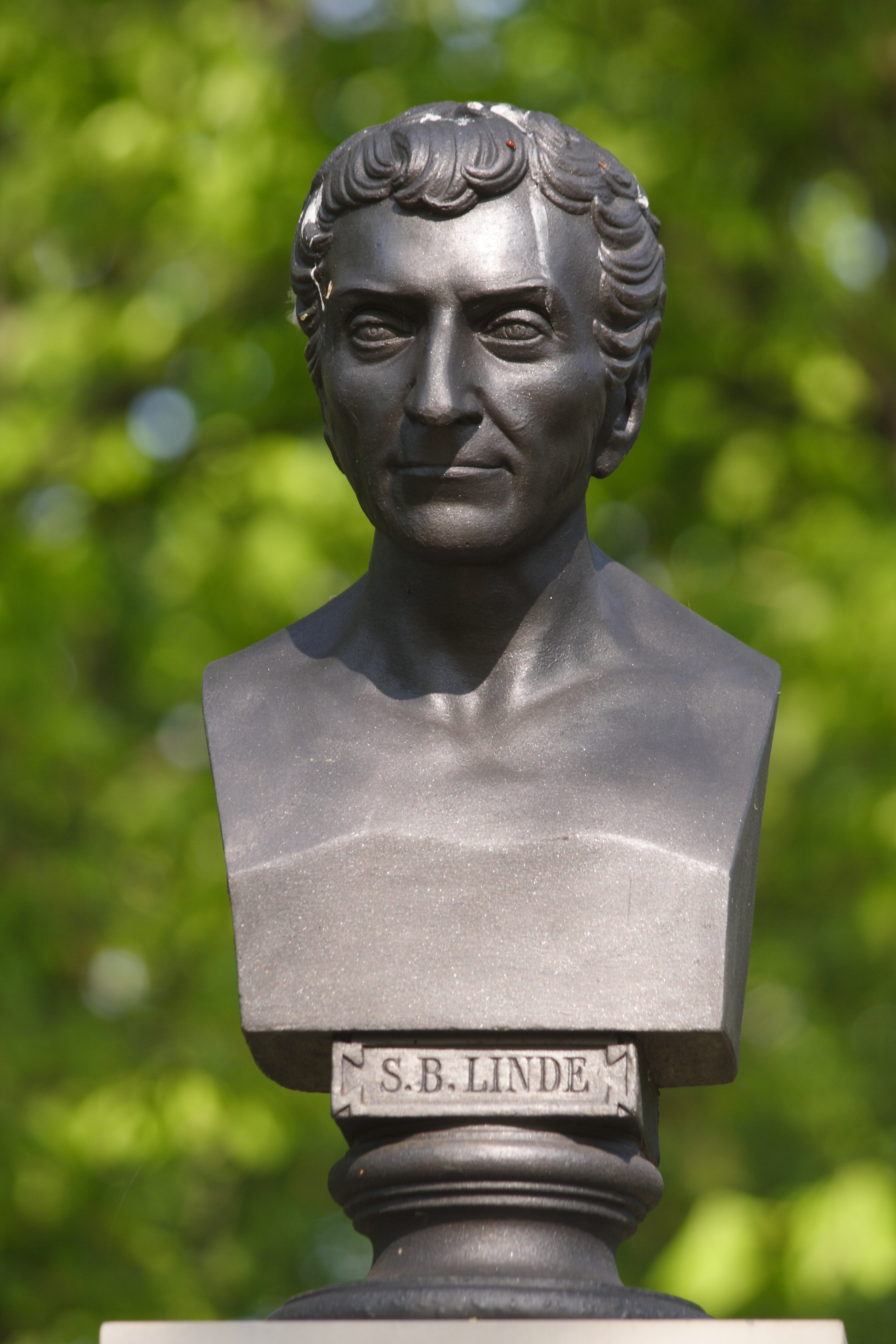 Bust of Samuel Bogumił Linde from monument of Linde family on Evangelical-Augsburg Cemetery in Warsaw, modelled by Jakub Tatarkiewicz.